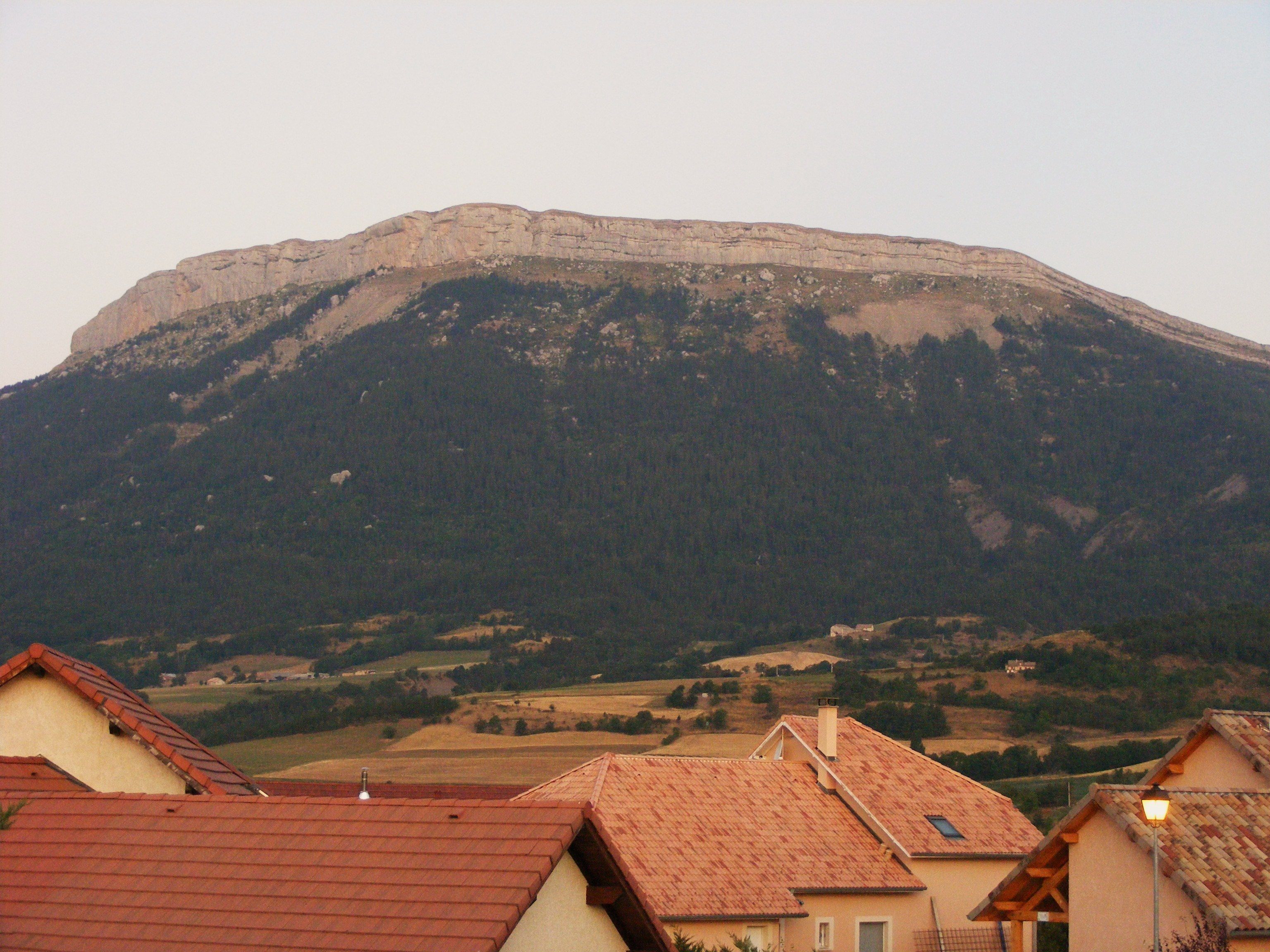 Céüse climbing venue as seen from the east.